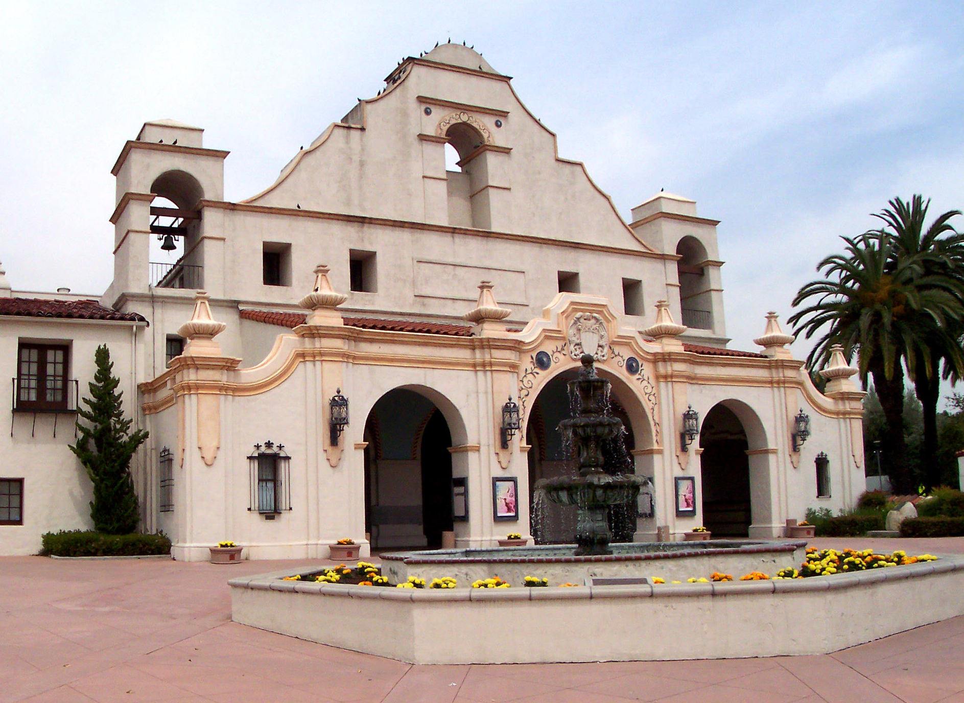 San Gabriel Mission Playhouse an example of Mission Revival Style architecture